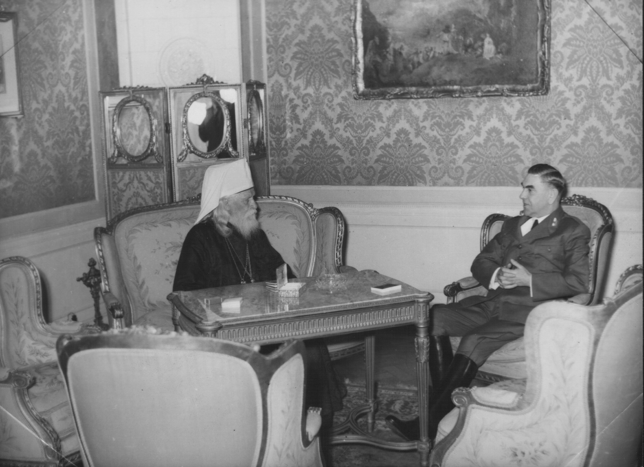 Patriarch of the Croatian Orthodox Church Germogen with Ante Pavelić